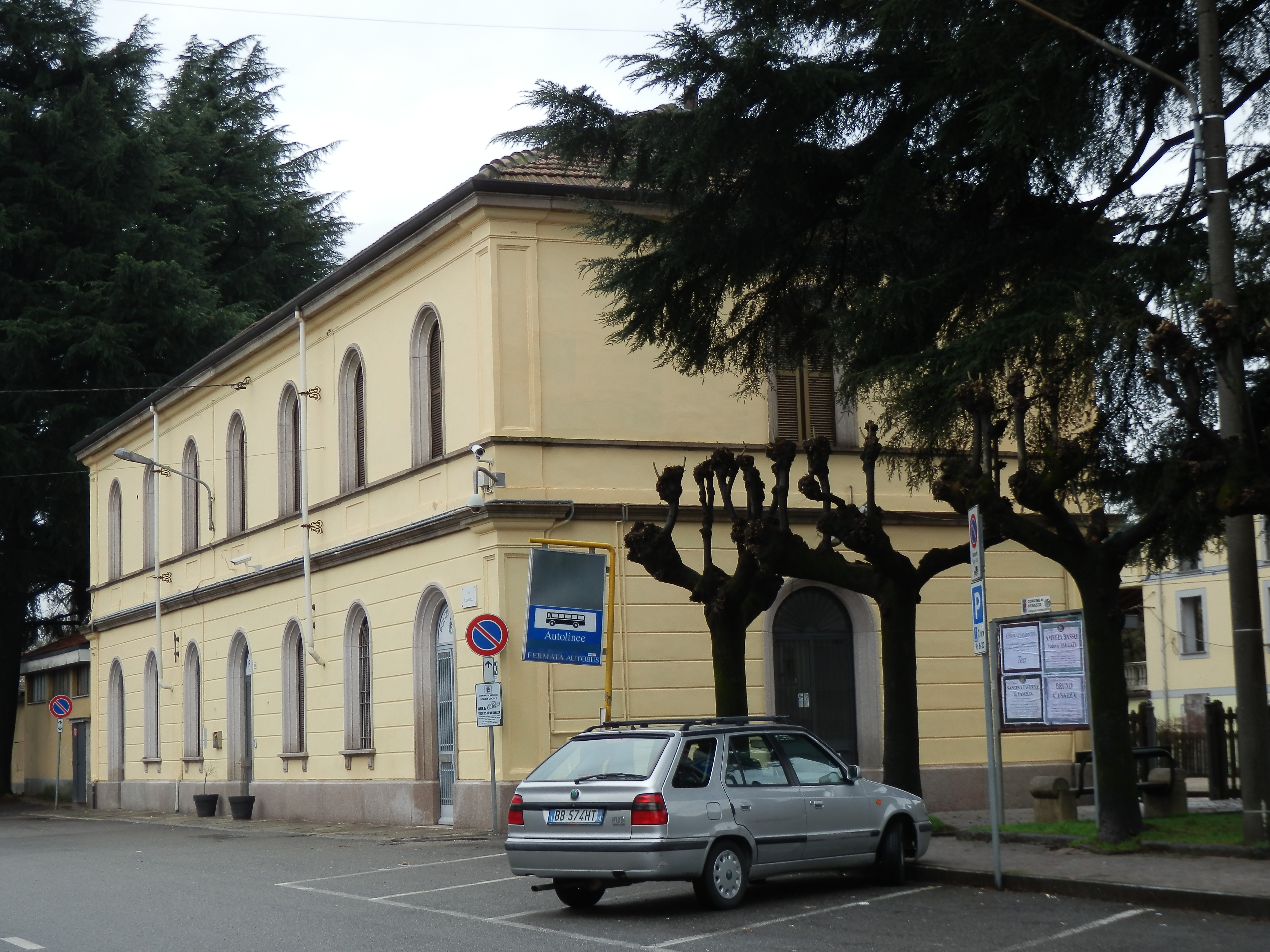 Train Station in Besozzo (VA) - January 2014